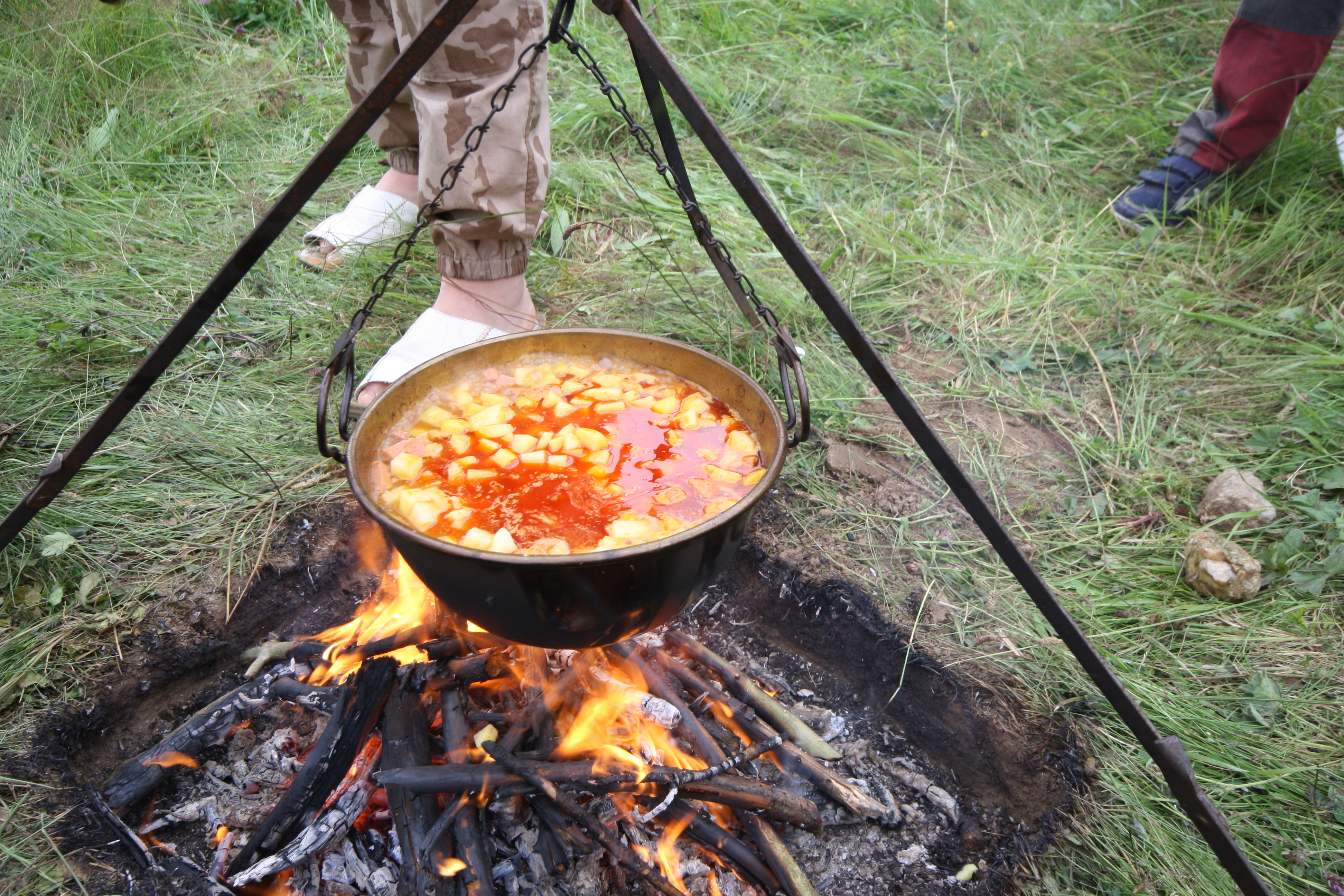 Caultron with goulash at Tripod.